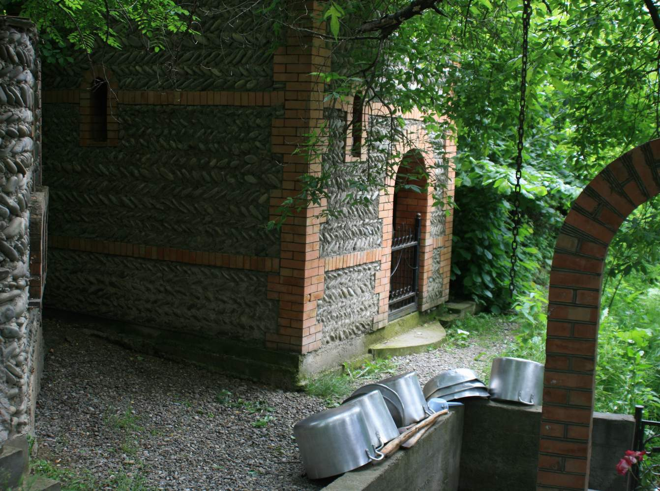 An Assyrian church in Dzveli-Kanda (ძველი ქანდა)